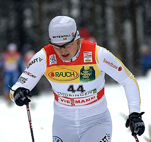 Hanna Brodin at the Tour de Ski 2010 in Oberhof